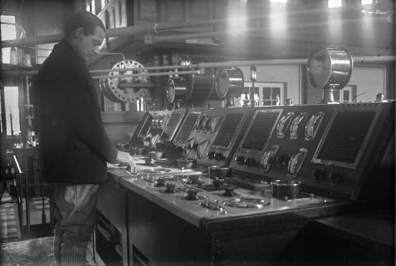 10 years of the Nauen radio station! It has been 10 years since the Nauen radio station became a large radio station with the world's best-equipped transmitter. Seven shortwave transmitters broadcast from the grounds of the Nauen radio station, and with a range of over 20,000 kilometers dominate the entire globe. The heart of the large radio station, the broadcasting table from which the radio messages are broadcast all over the world.